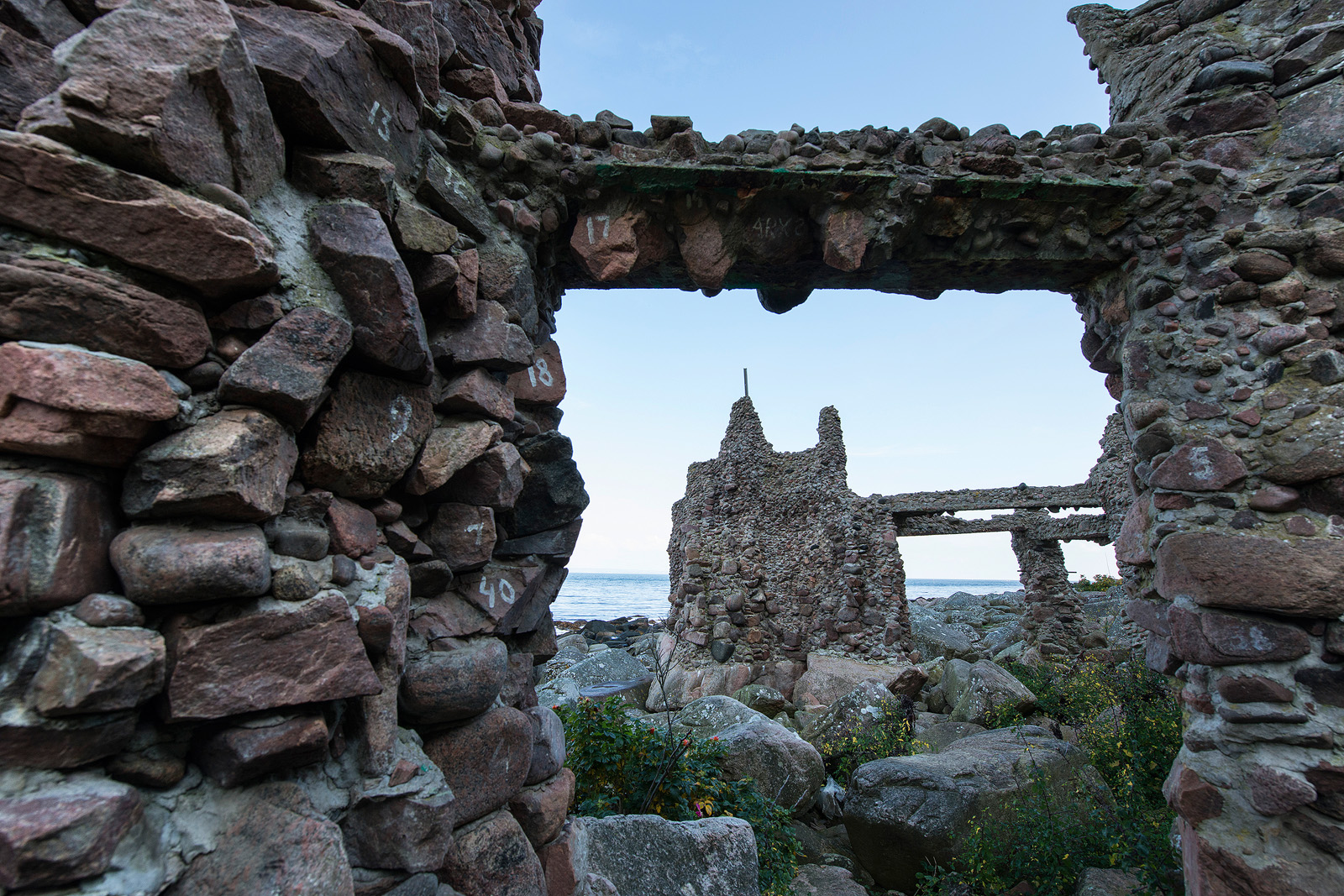 Lars Vilks: Arx. Sculpture at the coast of Kullaberg Nature Reserve, Skåne, Sweden